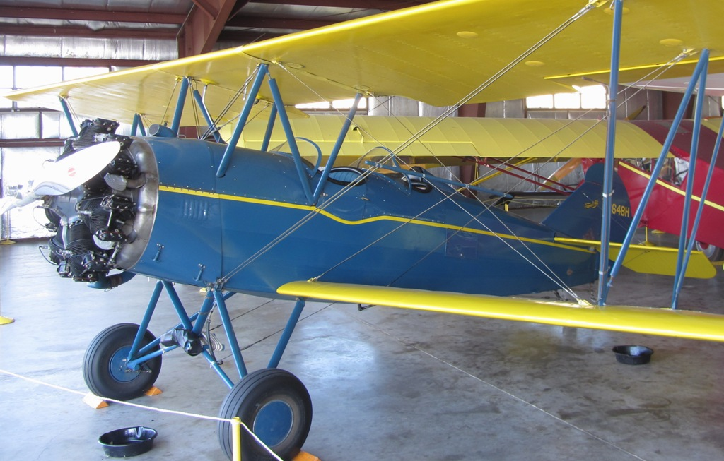 Travel Air E4000